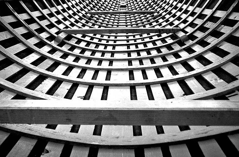 Photo of the interior of a Currach taken at the National Maritime College of Ireland